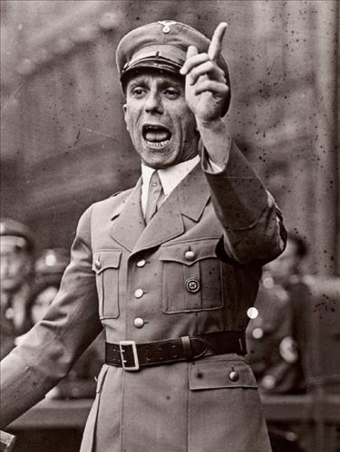 Goebbels delivering a speech in Nazi-Germany 1934